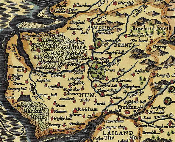 The Hundred of Amounderness: John Speed's map of Lancashire is one of the earliest and shows towns and villages but no highways.